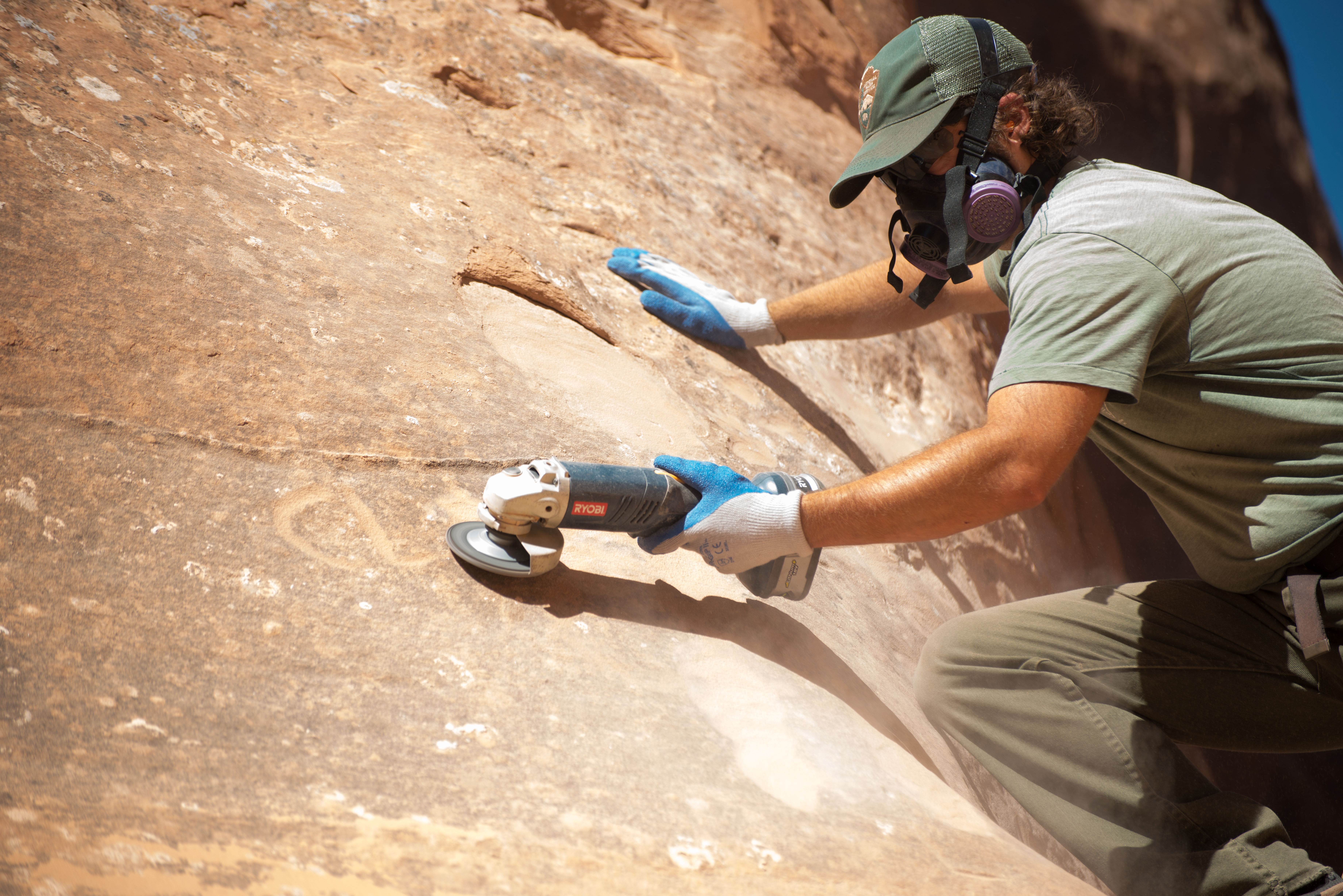 In rare situations, graffiti is carved so deep that brushes will not suffice. In these cases, maintenance staff require grinders to remove the graffiti. This requires a large amount of staff time to remove, and even when the graffiti is removed, the rocks will never be the same. Credit: NPS/Chris Wonderly